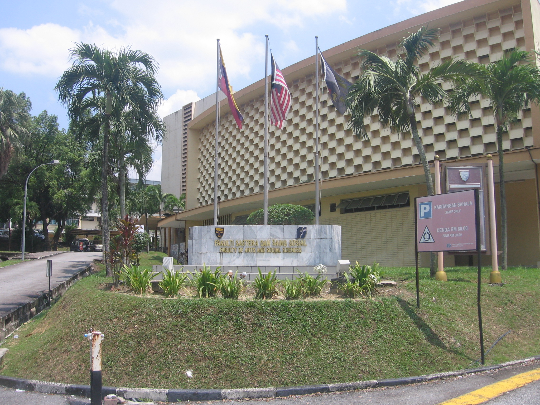 Faculty of Arts and Social Sciences of University of Malaya